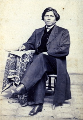 Allen Wright was a Choctaw delegate after the American Civil War. He was one of the signers of the 1866 treaty between the Choctaw Nation and the United States.